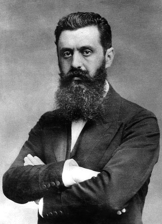 Theodor Herzl (1860-1904)